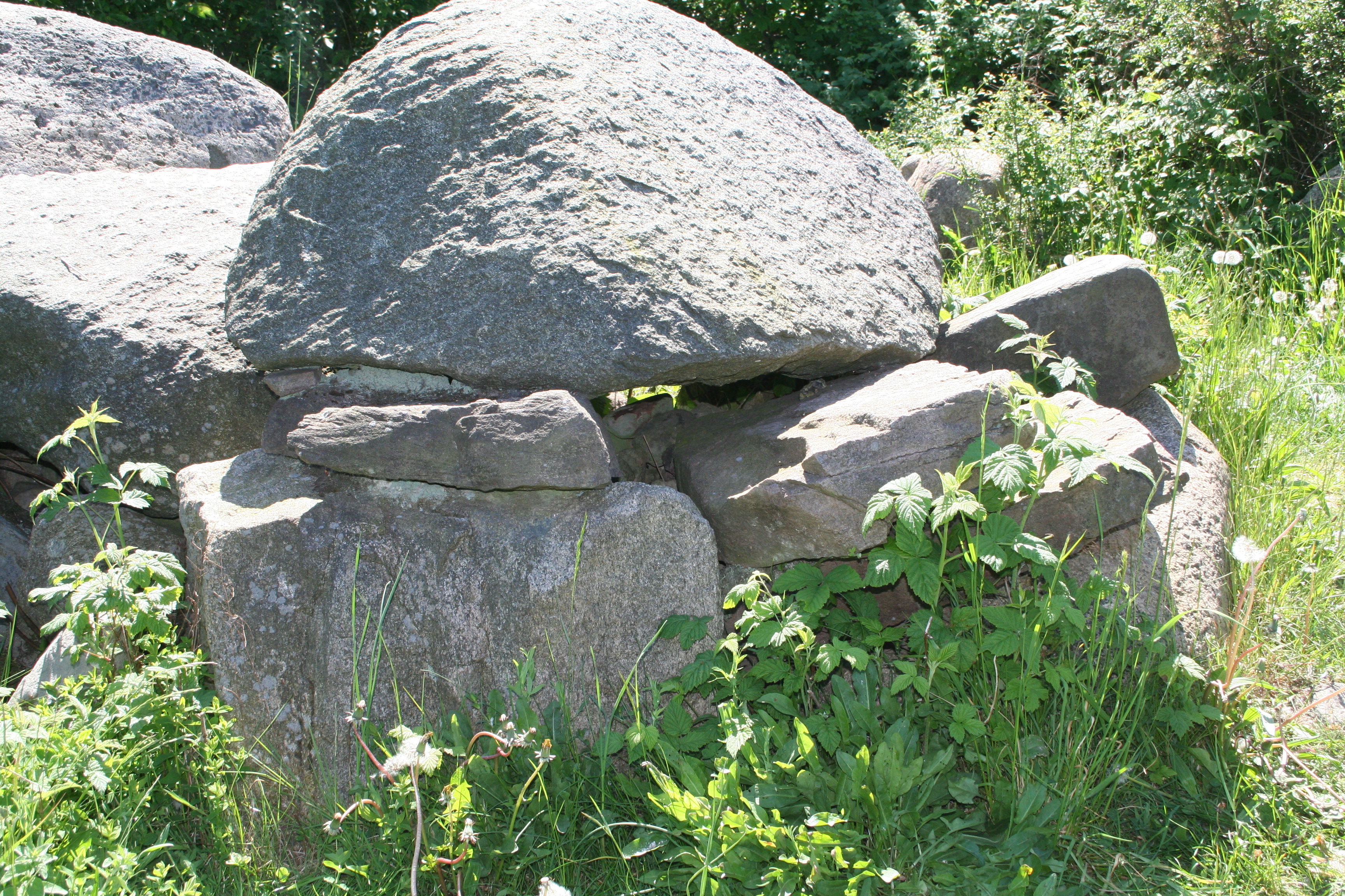 Megalithic Tomb Nipmerow